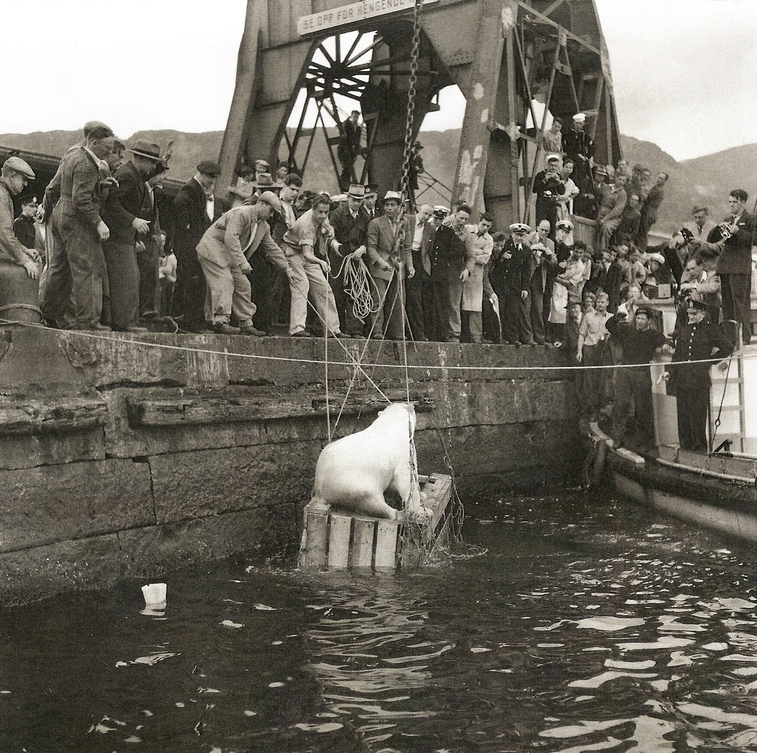 Picture of capture of polar bear in Bergen in 1953.